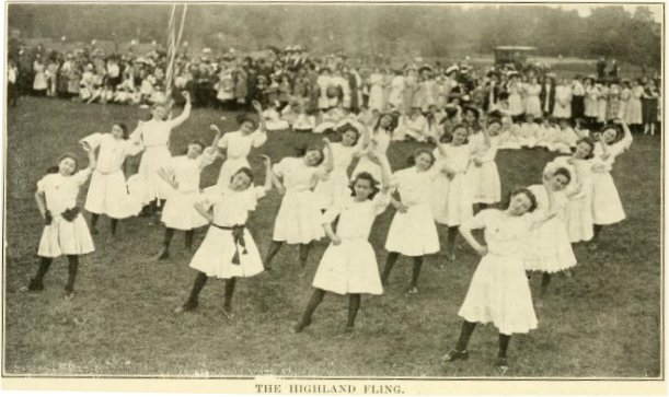 Children dancing the Highland Fling in 1910.